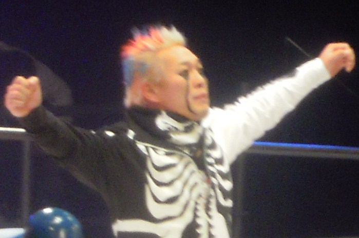 Japanese professional wrestler, NOSAWA Rongai. GAORA Janualy 24 201 JCB Hall.